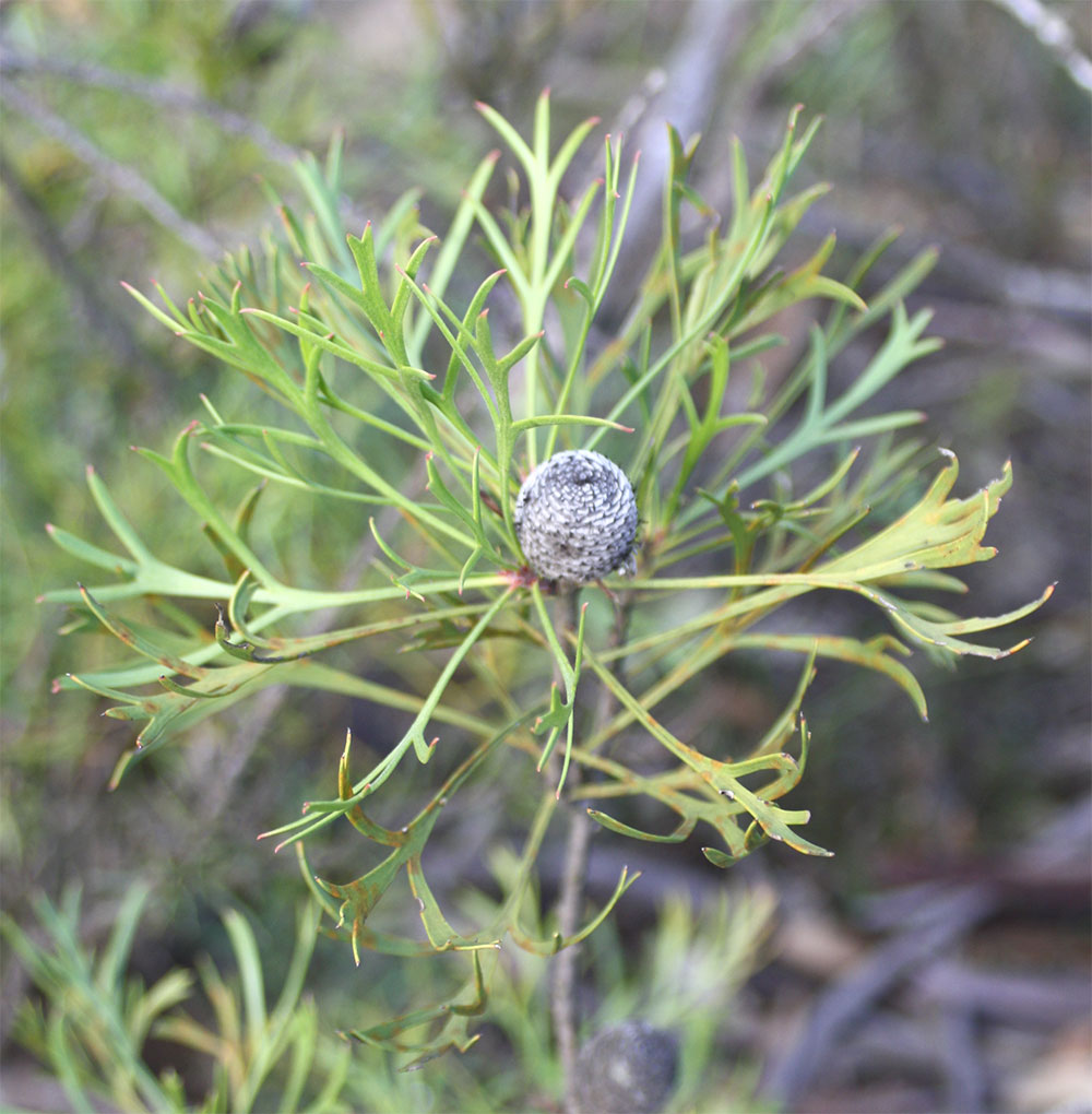 After flowering, remaining structure the shape of which suggests a drumstick.